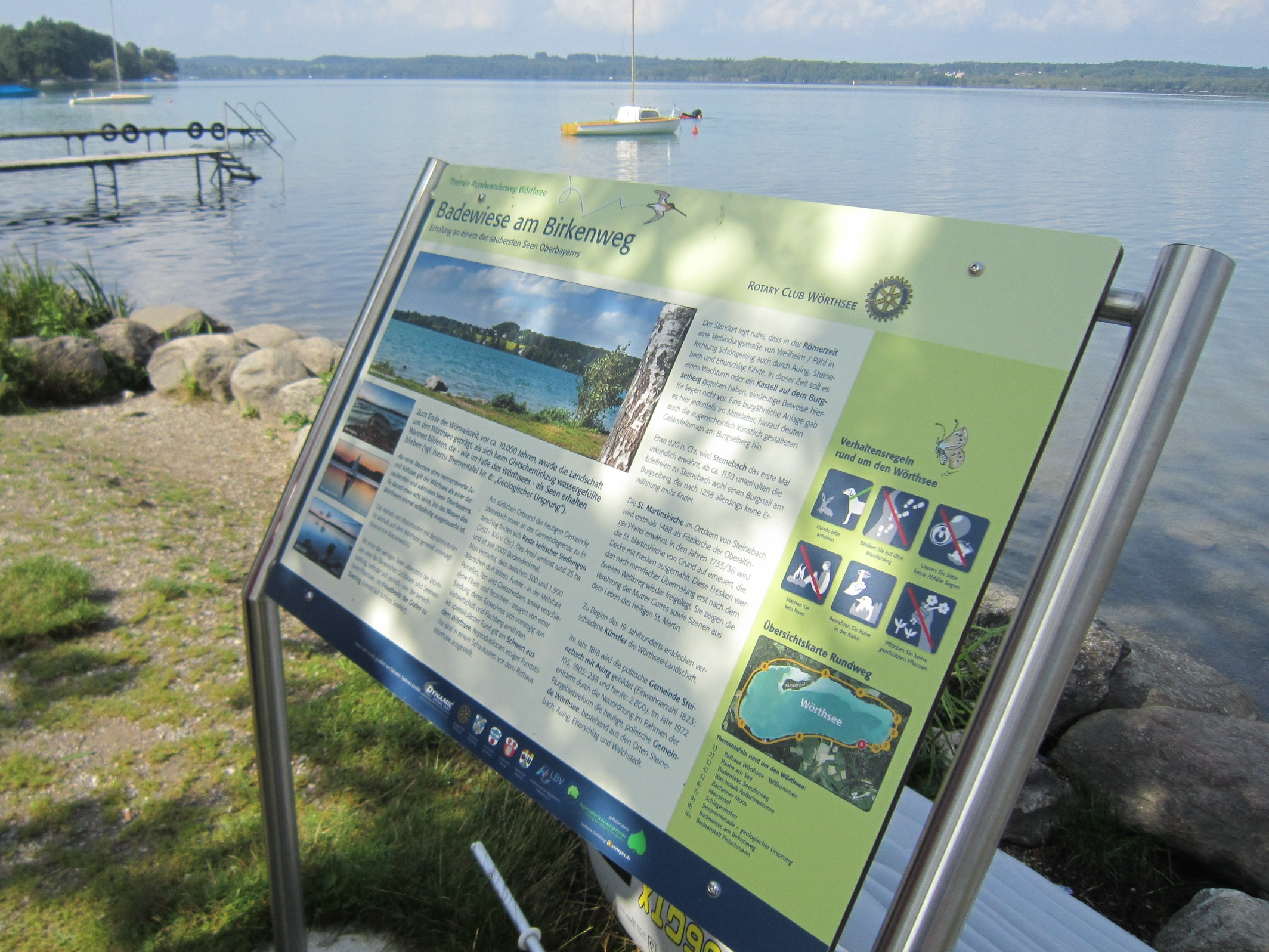 Information desk at the "Wörthsee" (Upper Bavaria)